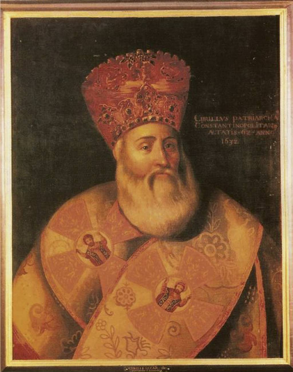 Portrait of Cyril Lucaris, Patriarch of Constantinople. Portrait created in 1632, Geneva, Switzerland.